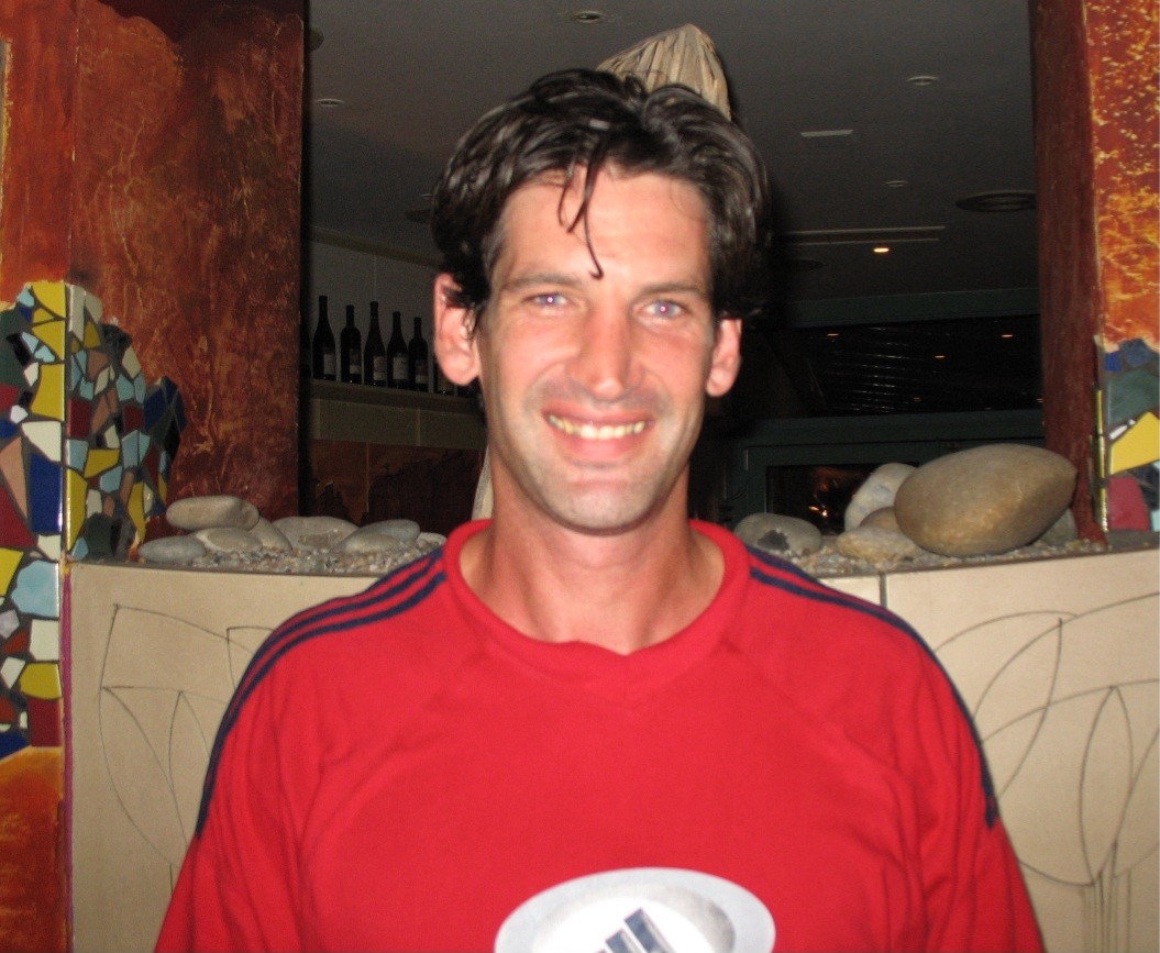 description: Okkert Brits, pole vaulter from south africa author: Rolf Kolasch source: Own work